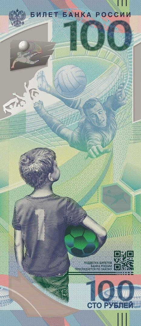 Russia 2018 FIFA World Cup 100 rubles, vertically oriented